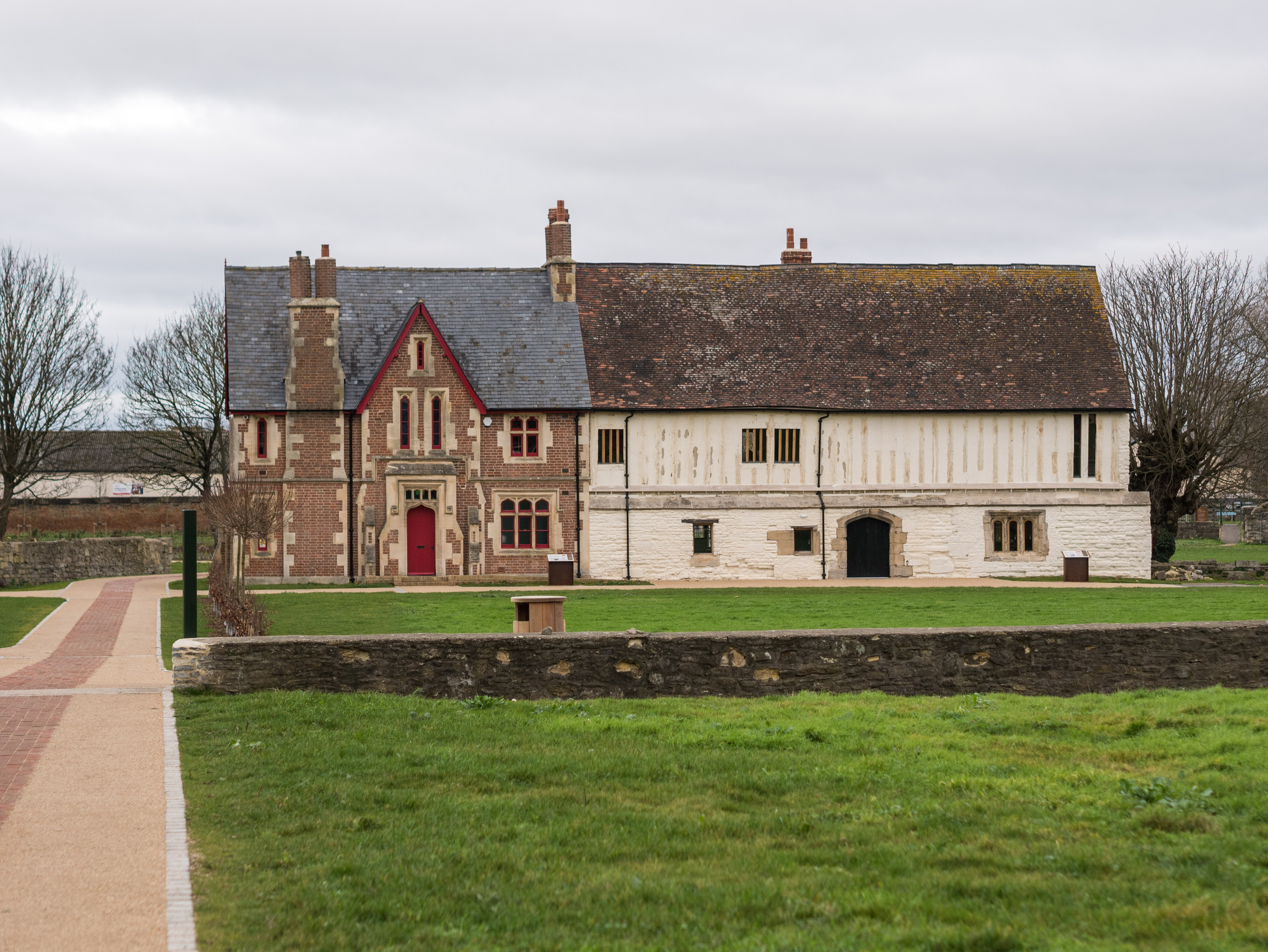 Llanthony Secunda Priory: the range on the right is Grade I Listed, while, on the left, the Tudor Gothic style farmhouse in red brick is Grade II Listed. The whole building has recently undergone restoration and conservation. Wikidata has entry Q17525938 with data related to this item.